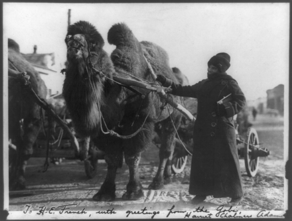 Harriet Chalmers Adams (1875-1937), American explorer. Self-portrait photograph with a camel cart in the Gobi Desert.